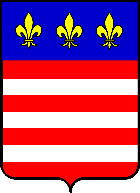 Coat-of-arms of Durazzo family, Italy